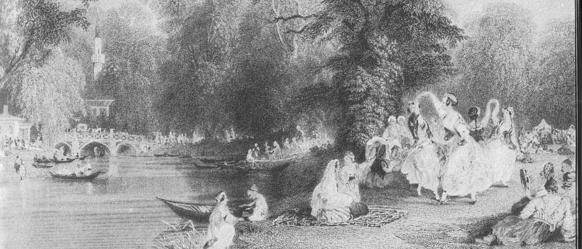 Turkish_Government_information_brochure_(1950s)_-_Istanbul_park